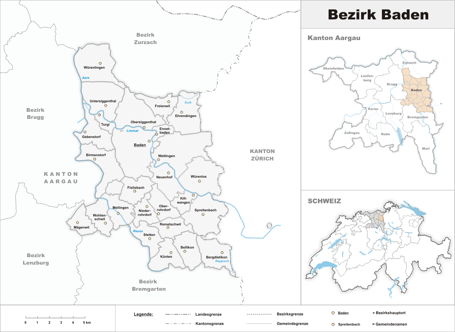 Municipalities in the district of Baden